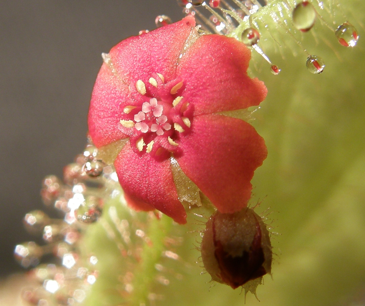 Drosera schizandra